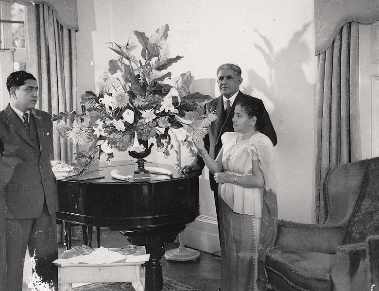 Photograph of Sir E.A.P, Lady Leela & N.P Wijeyeratne.